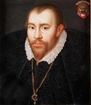 Portrait of Gustav Axelsson Banér (1547-1600), artist unknown. From Nordiska museet (Nordic Museum) Stockholm, Sweden. Item number 991381.